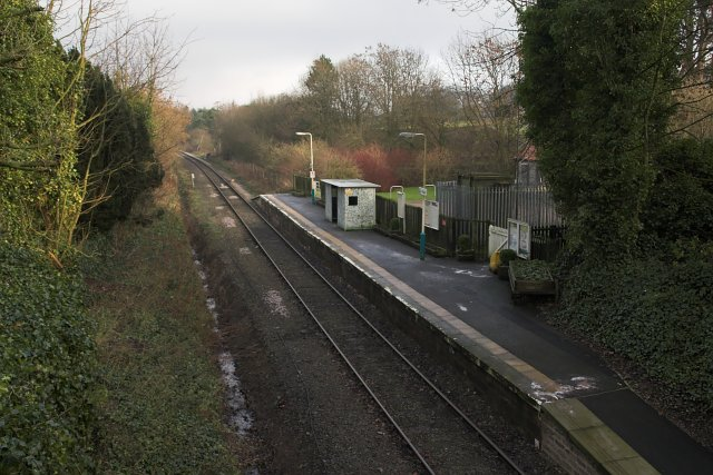 Kildale Railway Statio